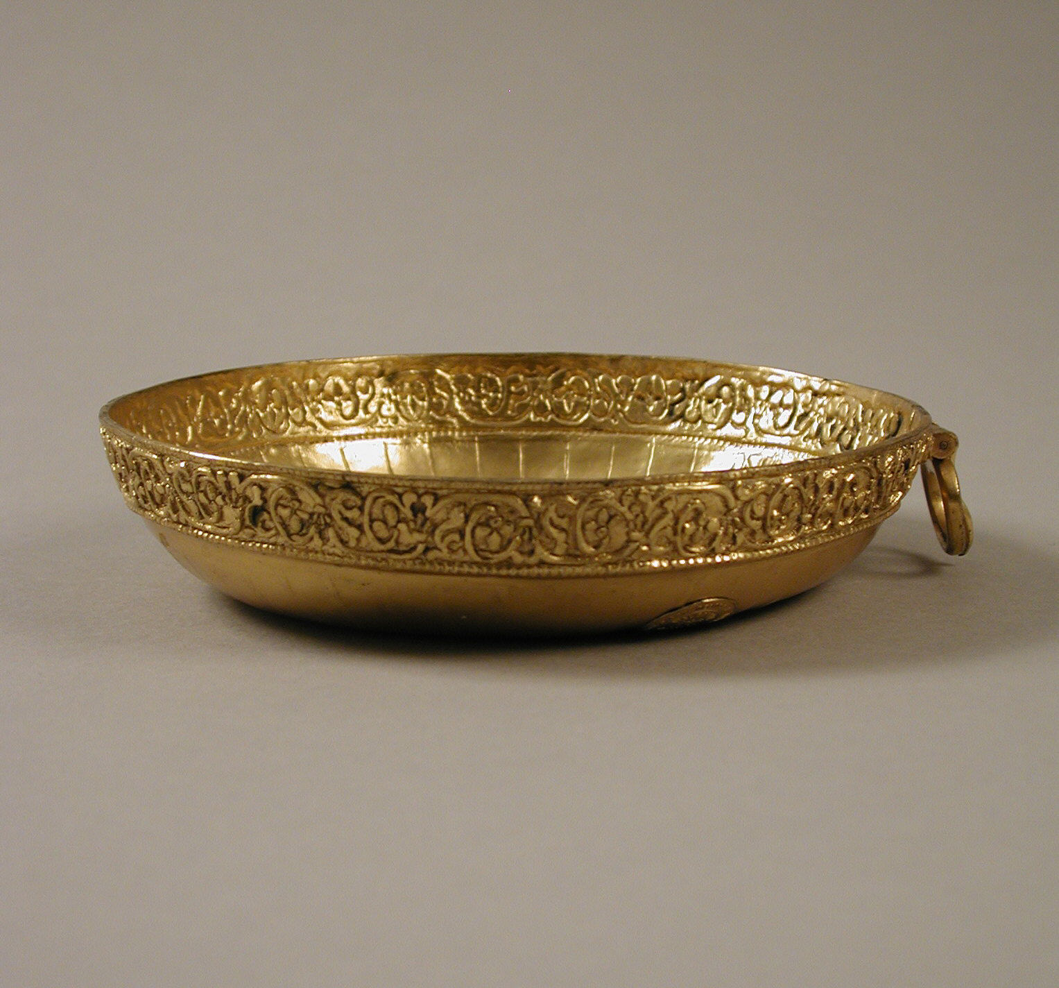 Scythian; Cup or bratina; Reproductions-Metalwork